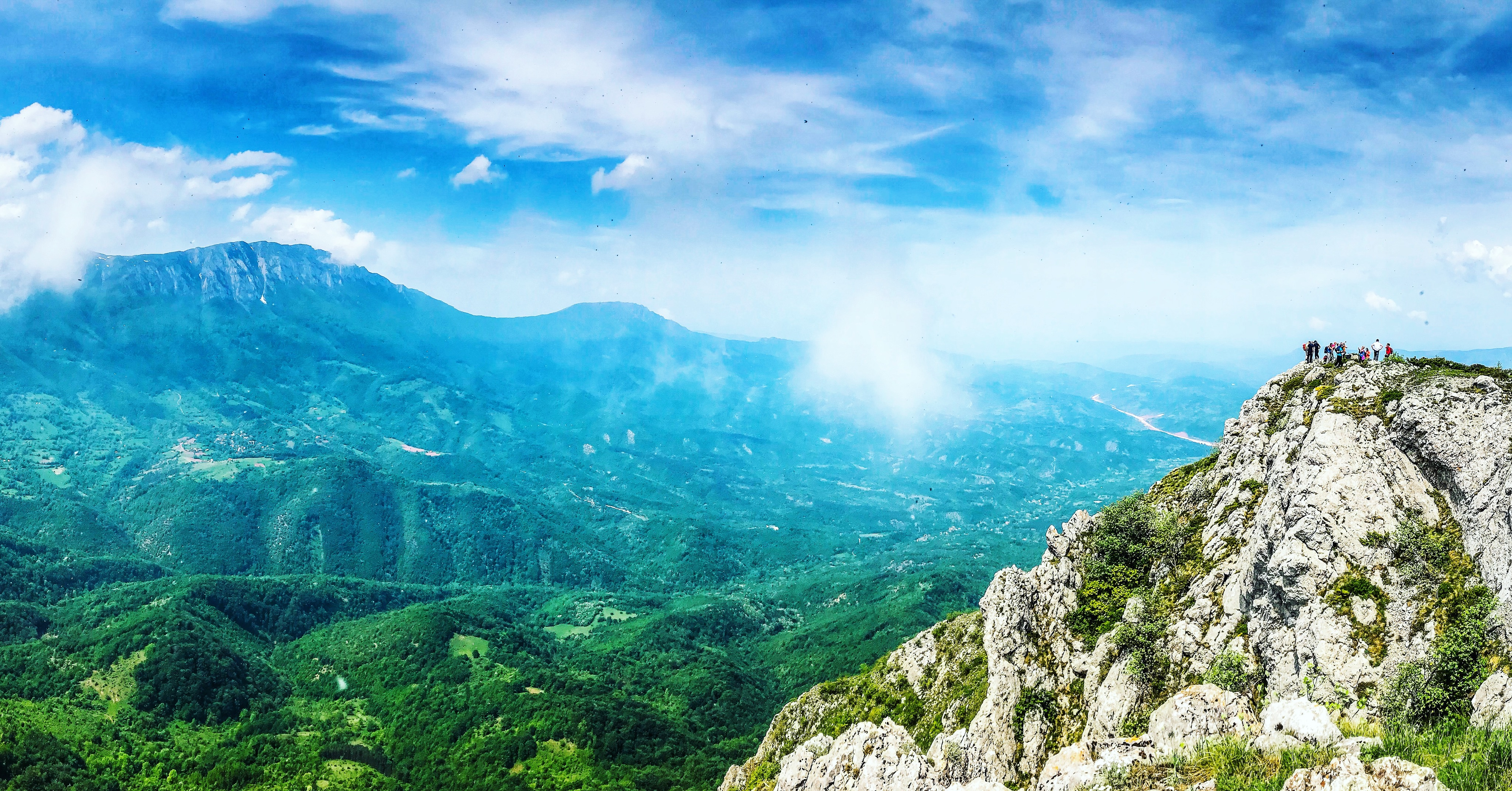 The peaks of Trem and Sokolov kamen photographed from a Divna Gorica peak (Suva mountain). Srpski (latinica): Pogled na vrhove Trem i Sokolov kamen sa vrha Divna Gorica (Suva planina).